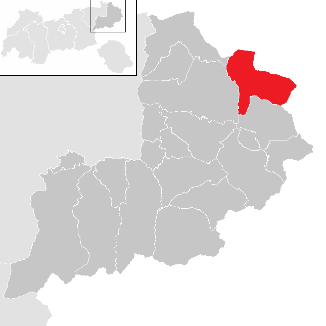 District Kitzbühel